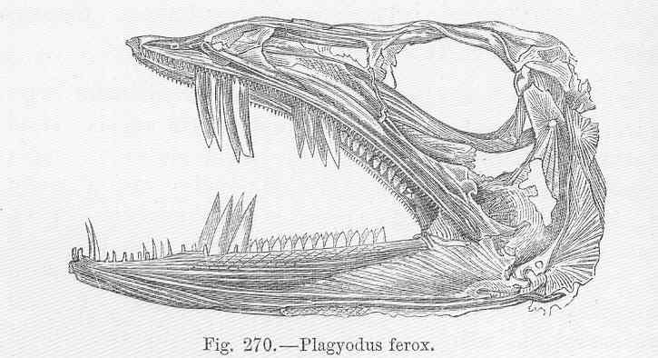 Plagyodus ferox Subject: Plagyodus, Plagyontidae Tag: Fish